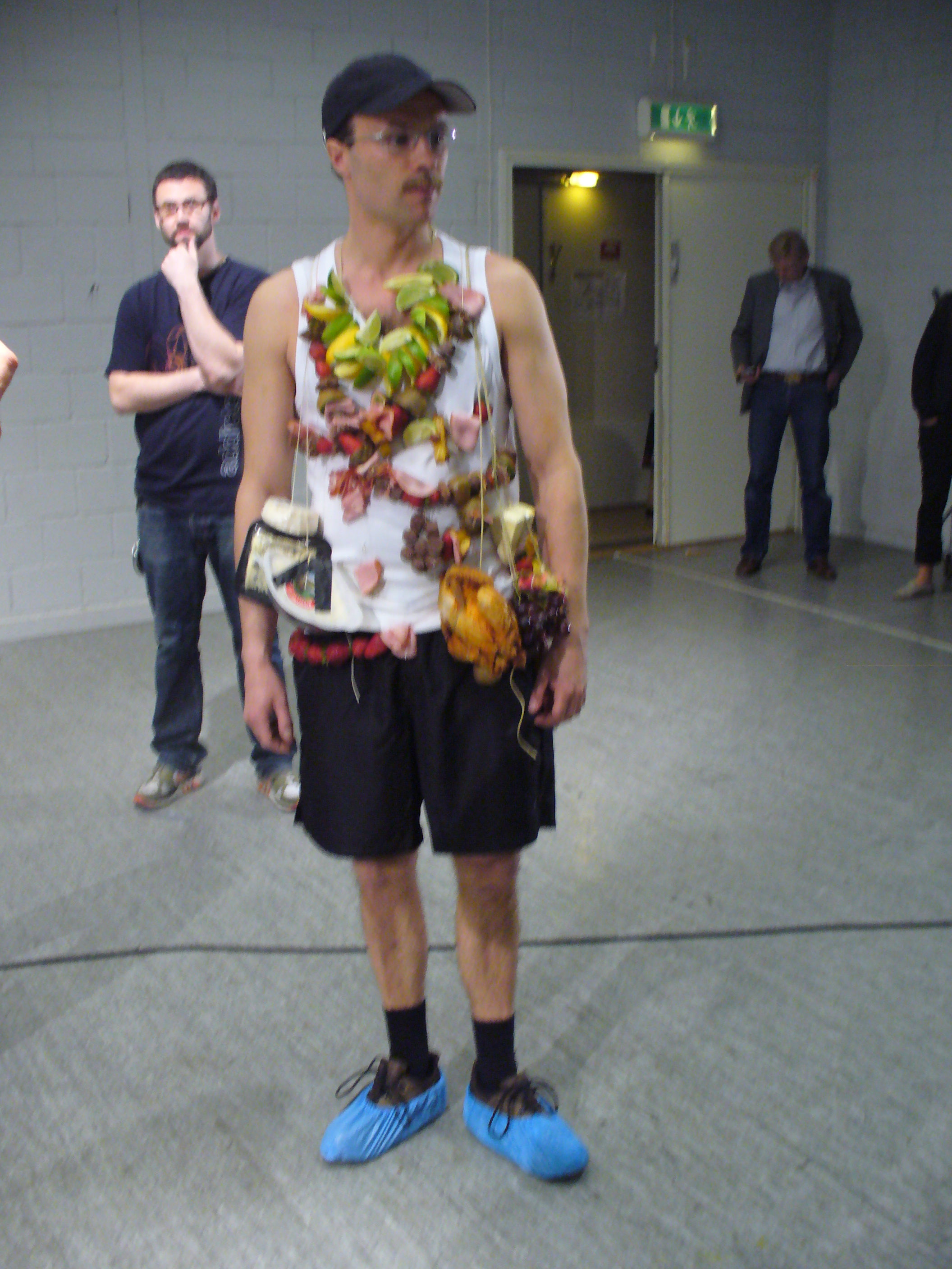 Swedish actor Joachim Persson during recording of a TV6 promotional.